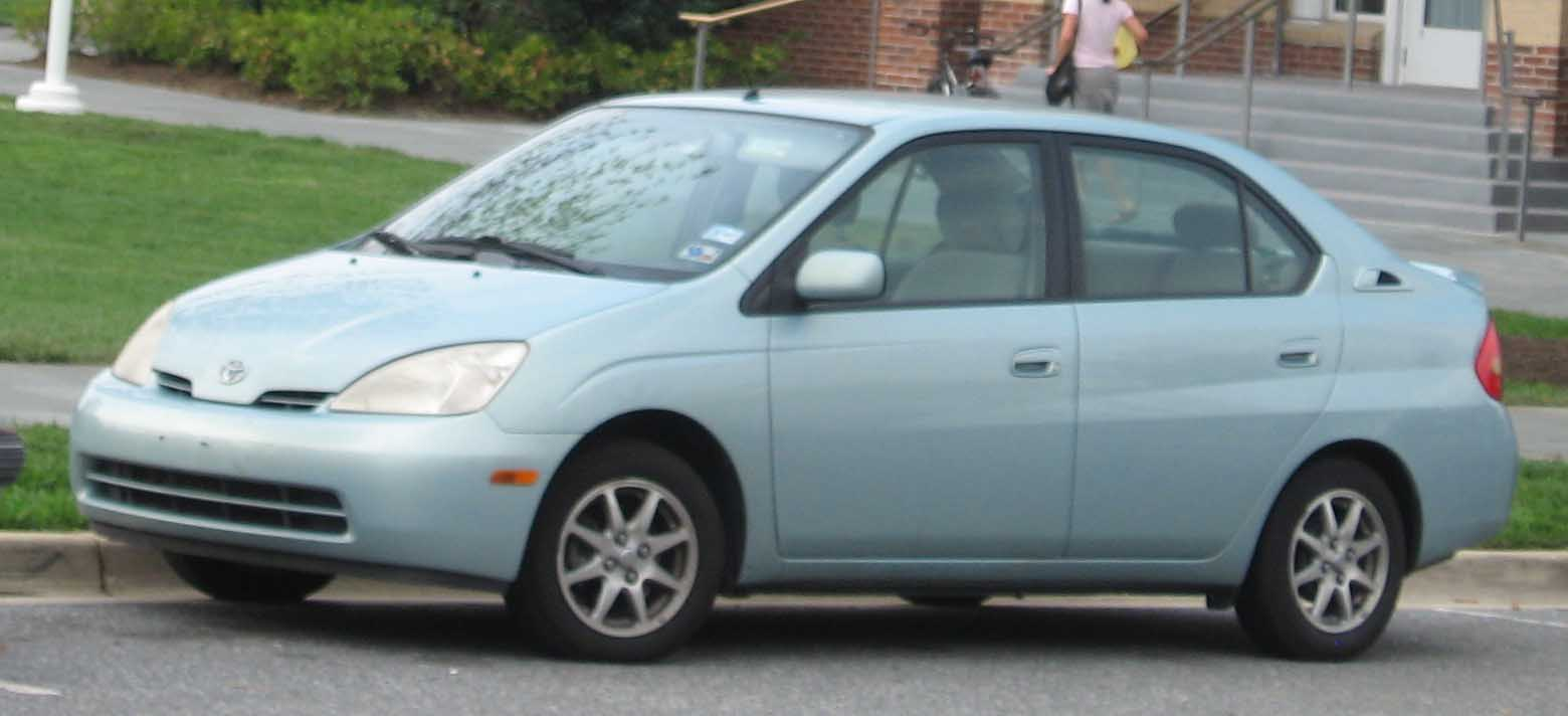 Toyota Prius photographed in College Park, Maryland, USA.